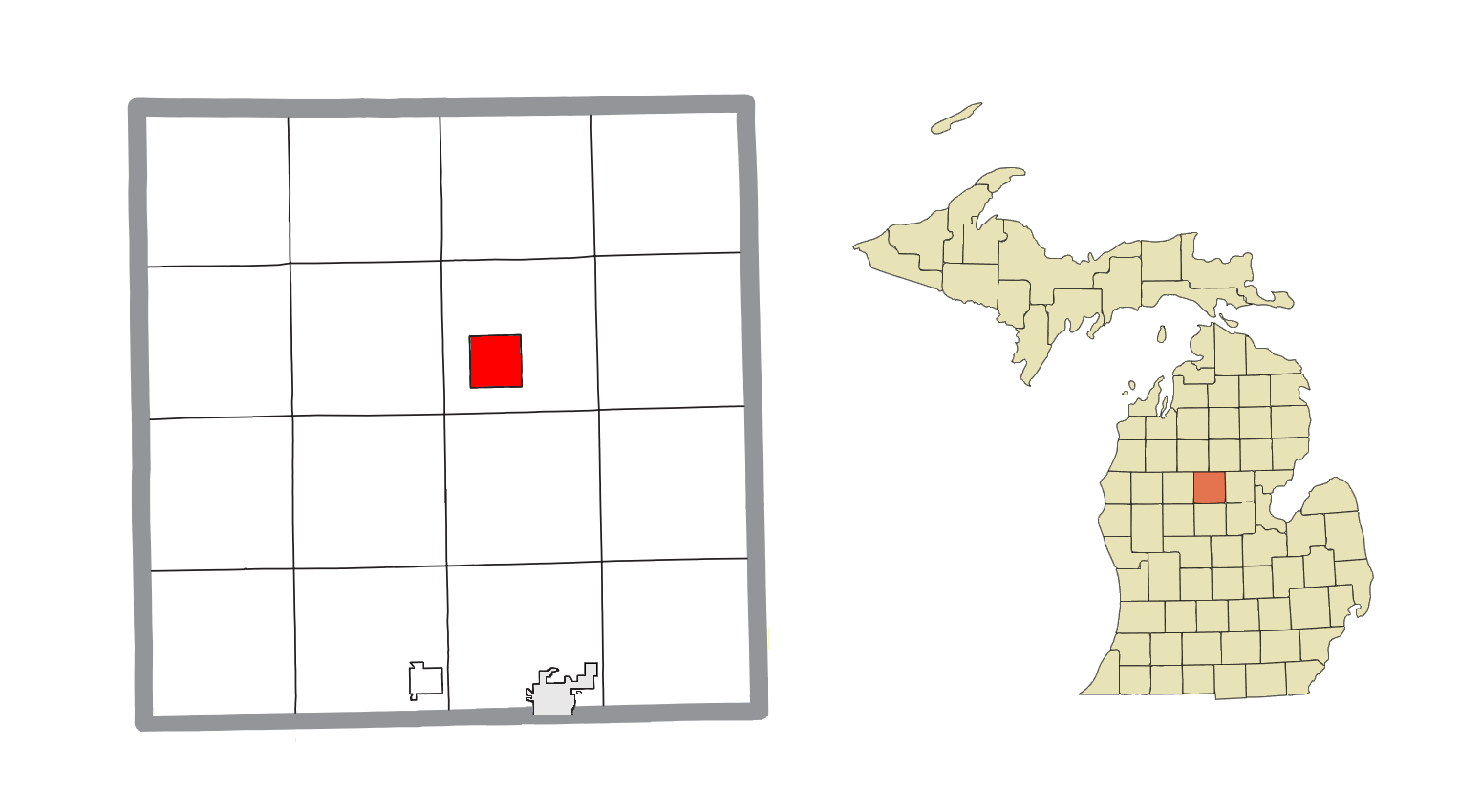 Harrison, MI